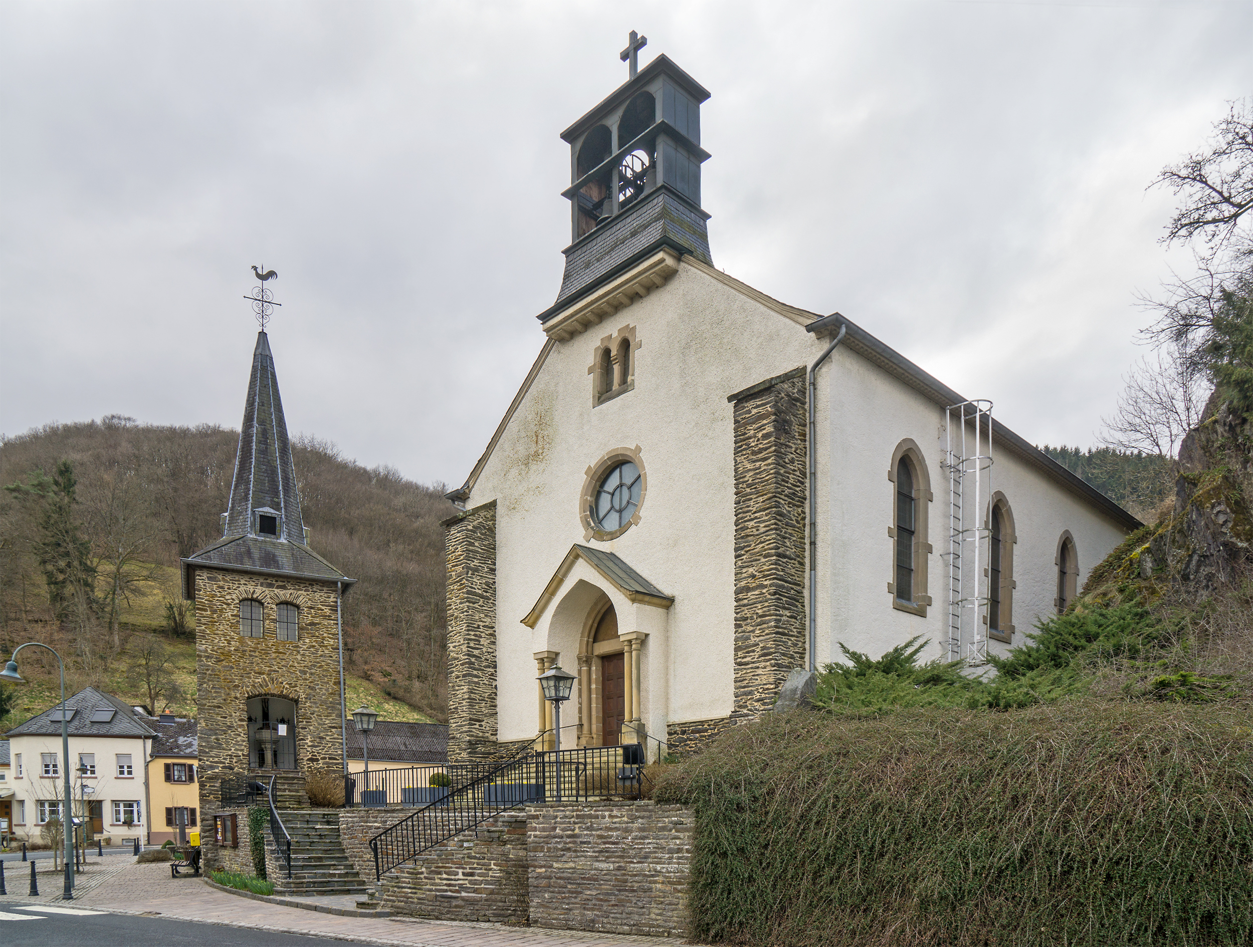 Church of Stolzembourg